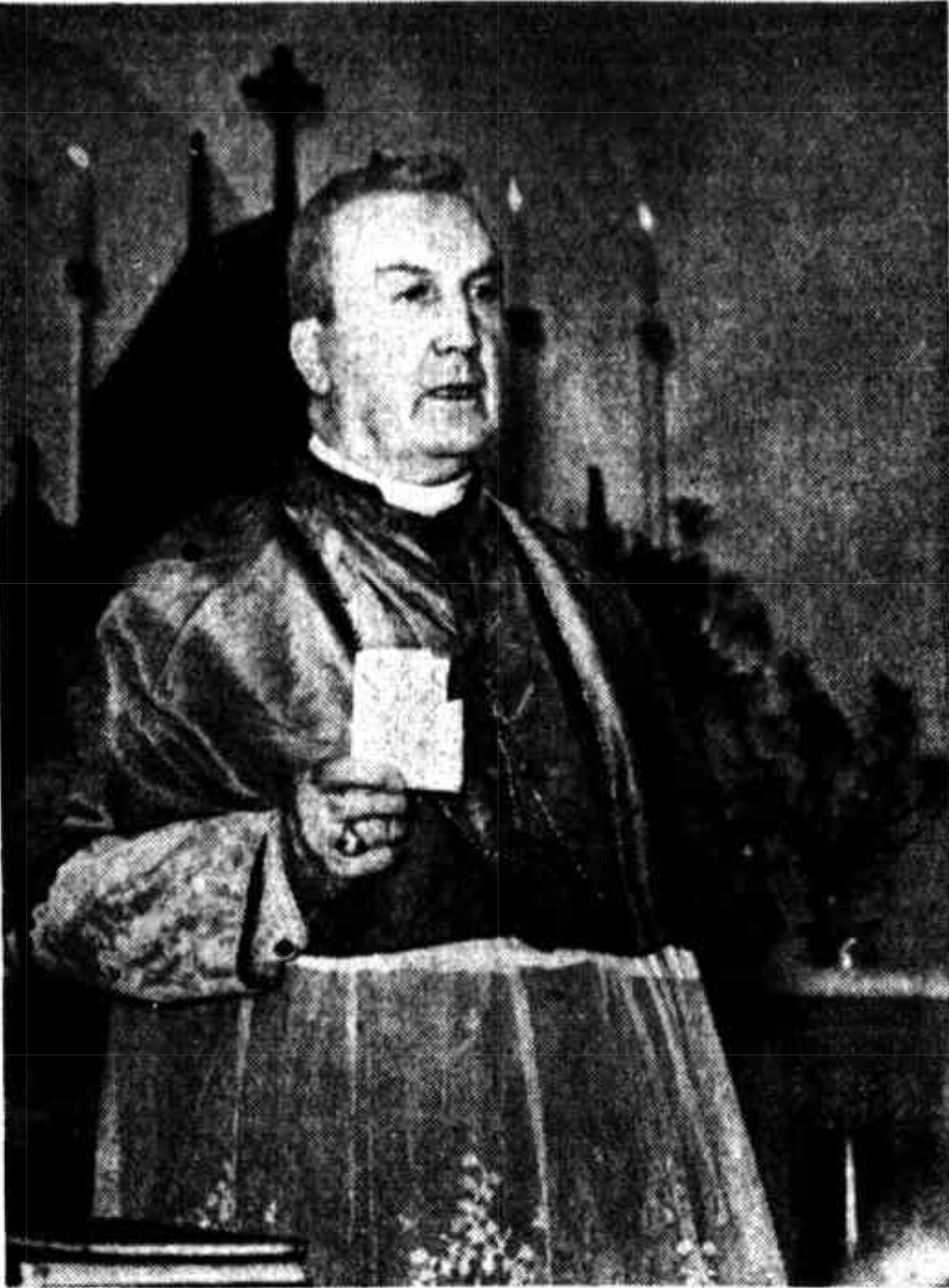 Roman Catholic Archbishop of Brisbane, James Duhig, addressing the congregation at the opening of St Clement's Melkite Catholic Church at 72 Ernest Street, South Brisbane, 29 March 1936